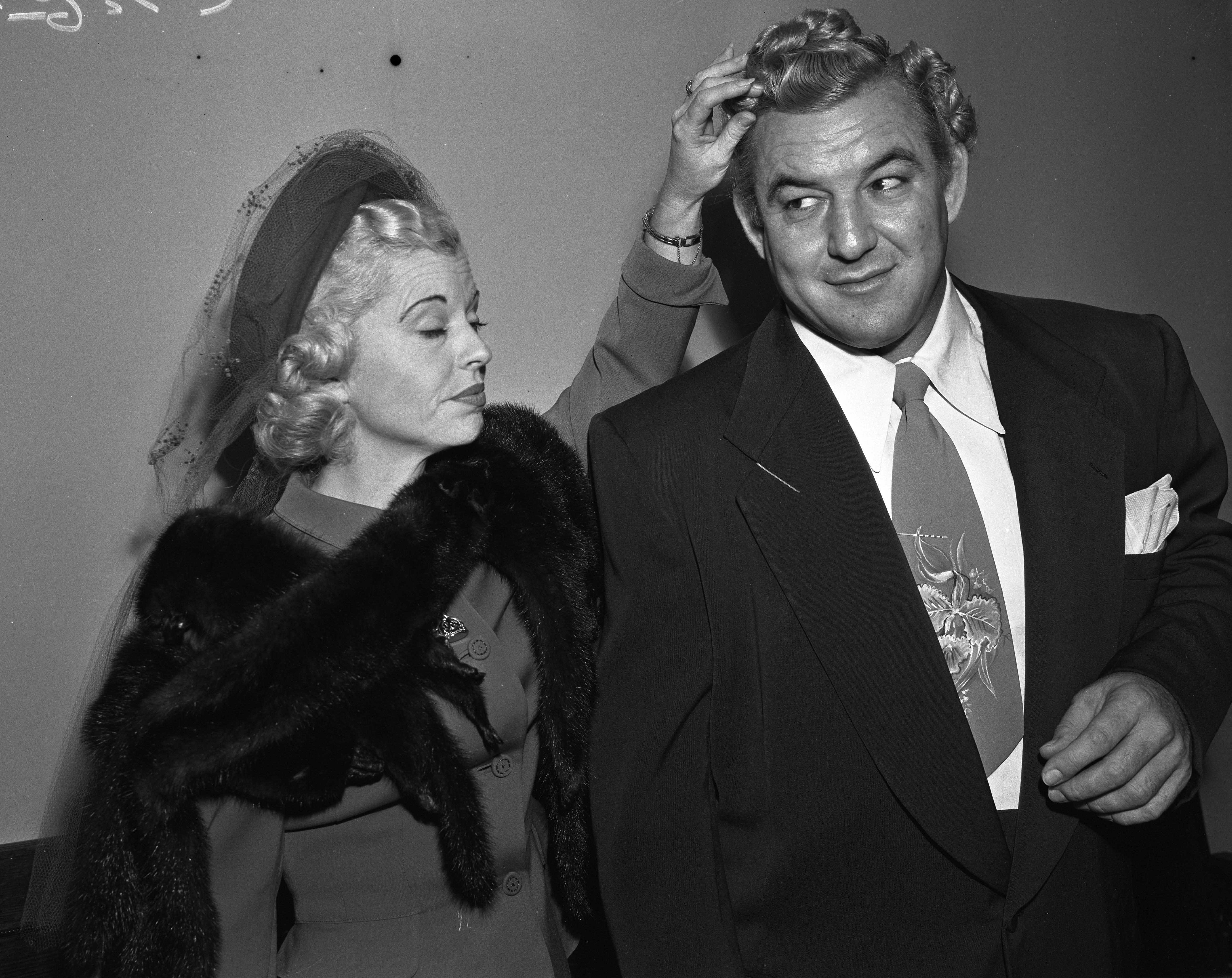 Gorgeous George Wagner with his wife Elizabeth (Betty) at court for name change in Los Angeles, Calif., 1950